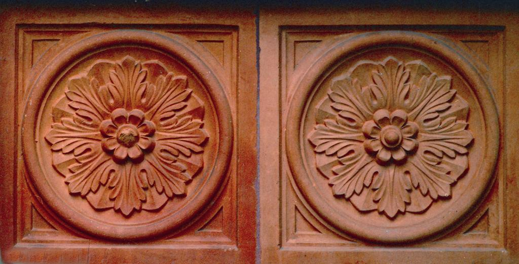 Moorrege (Schleswig-Holstein, Germany), “Düneck-Castle“ photo: 1997